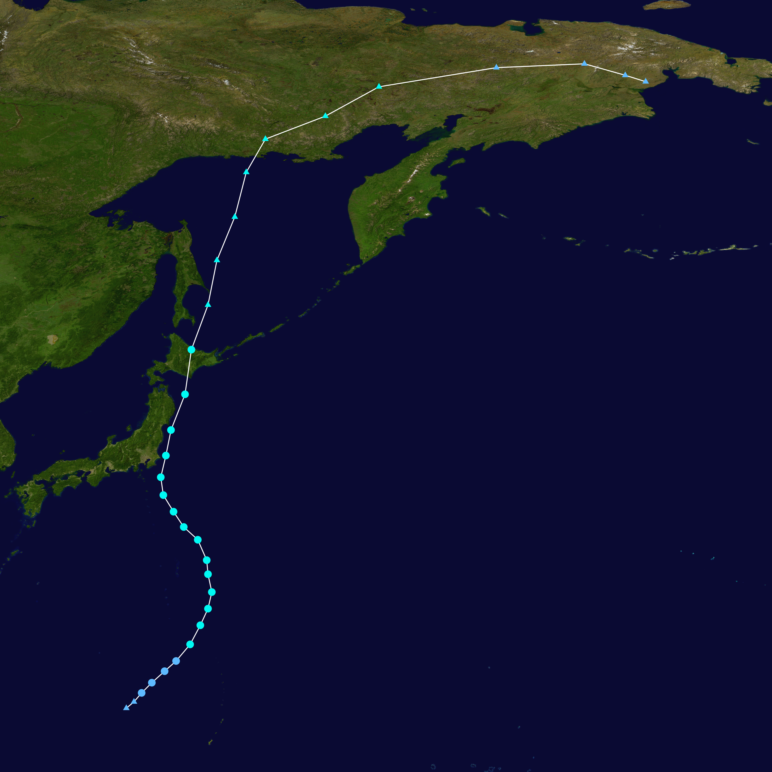 Track map of Severe Tropical Storm Chanthu of the 2016 Pacific typhoon season. The points show the location of the storm at 6-hour intervals. The colour represents the storm's maximum sustained wind speeds as classified in the Saffir–Simpson scale (see below), and the shape of the data points represent the nature of the storm, according to the legend below. Saffir–Simpson scale Tropical depression≤38 mph≤62 km/h Category 3111–129 mph178–208 km/h Tropical storm39–73 mph63–118 km/h Category 4130–156 mph209–251 km/h Category 174–95 mph119–153 km/h Category 5≥157 mph≥252 km/h Category 296–110 mph154–177 km/h Unknown Storm type Tropical cyclone Subtropical cyclone Extratropical cyclone / Remnant low / Tropical disturbance / Monsoon depression